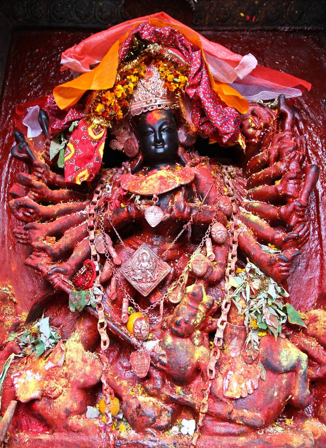 पलान्चोक भगवती मन्दिर काभ्रे नेपाल